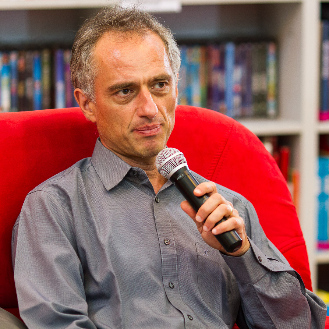 Pavol Rankov on Authors’ Reading Month 2015, Wrocław, Poland